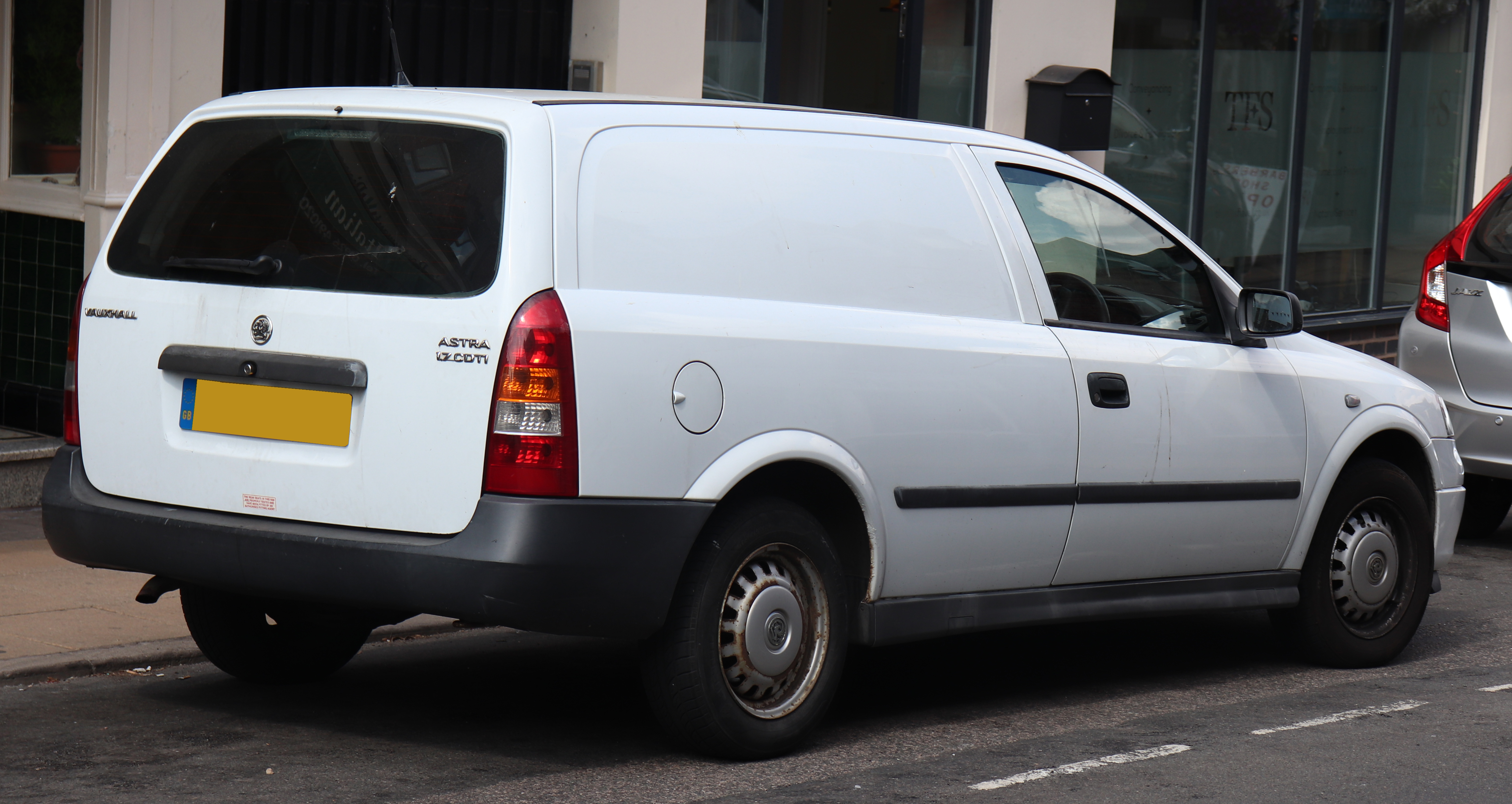 2004 Vauxhall Astravan Envoy CDTi 1.7 Rear Taken in Warwick